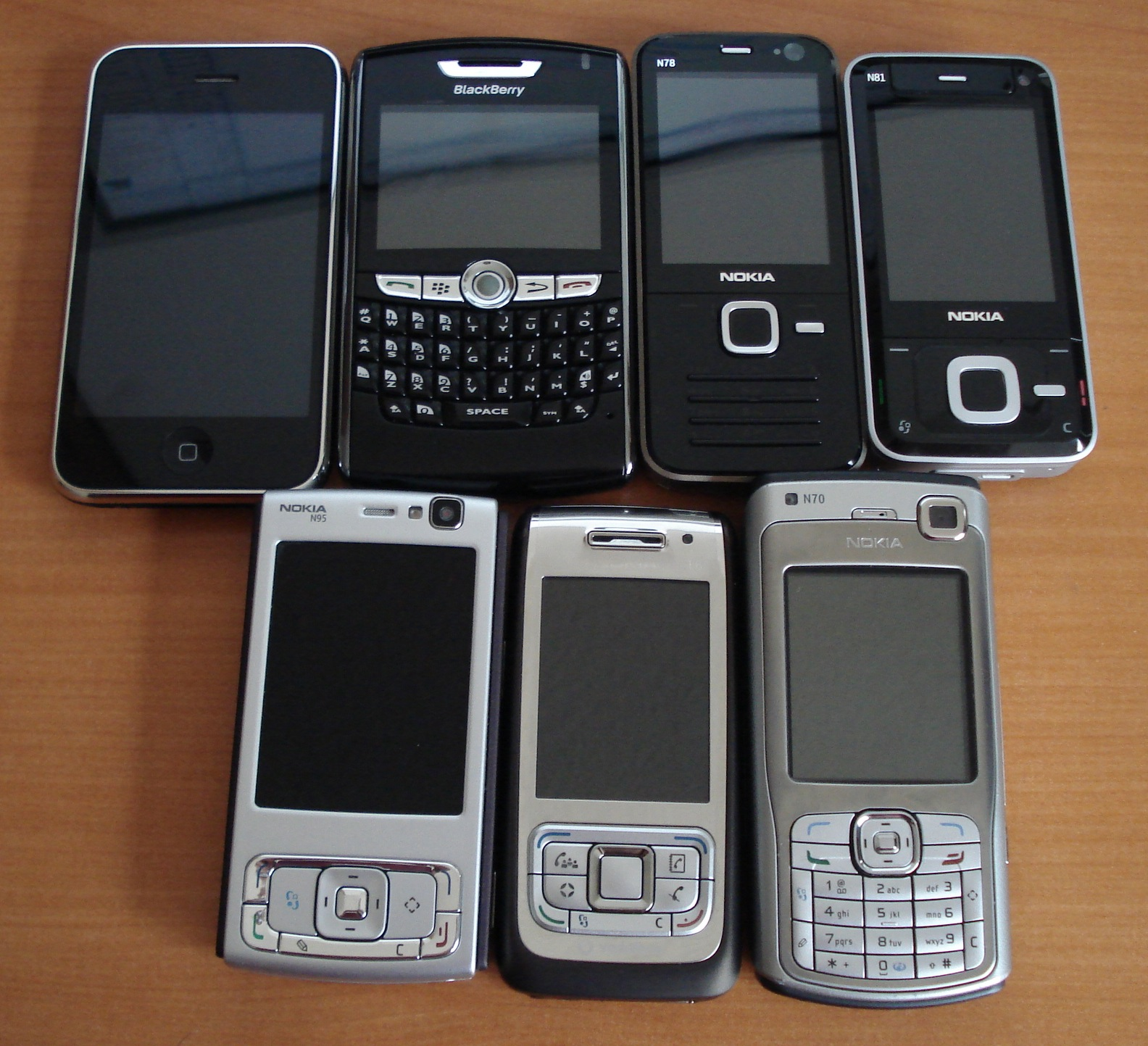 Assorted smartphones. From left to right, top row: iPhone 3G, Blackberry 8820, Nokia N78, Nokia N81, (bottom row) Nokia N95, Nokia E65, Nokia N70.